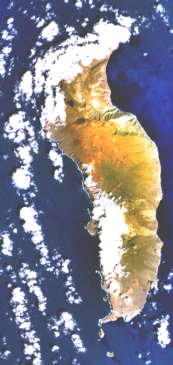 Isla Guadalupe, Mexico. Satellite view.